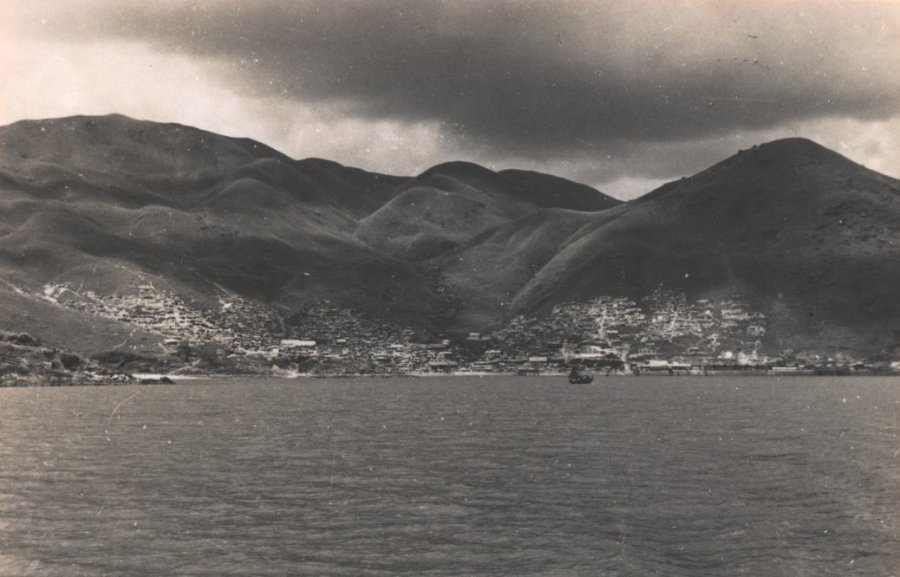 1951 of Tiu Keng Leng 中文（香港）: 1951年的調景嶺